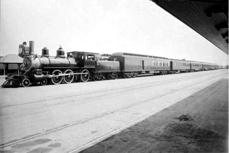 A view of the Atchison, Topeka, and Santa Fe Railway California Limited train in Los Angeles, California. Shows engine number 53 at the Santa Fe Depot, eastern Downtown Los Angeles, circa 1899.